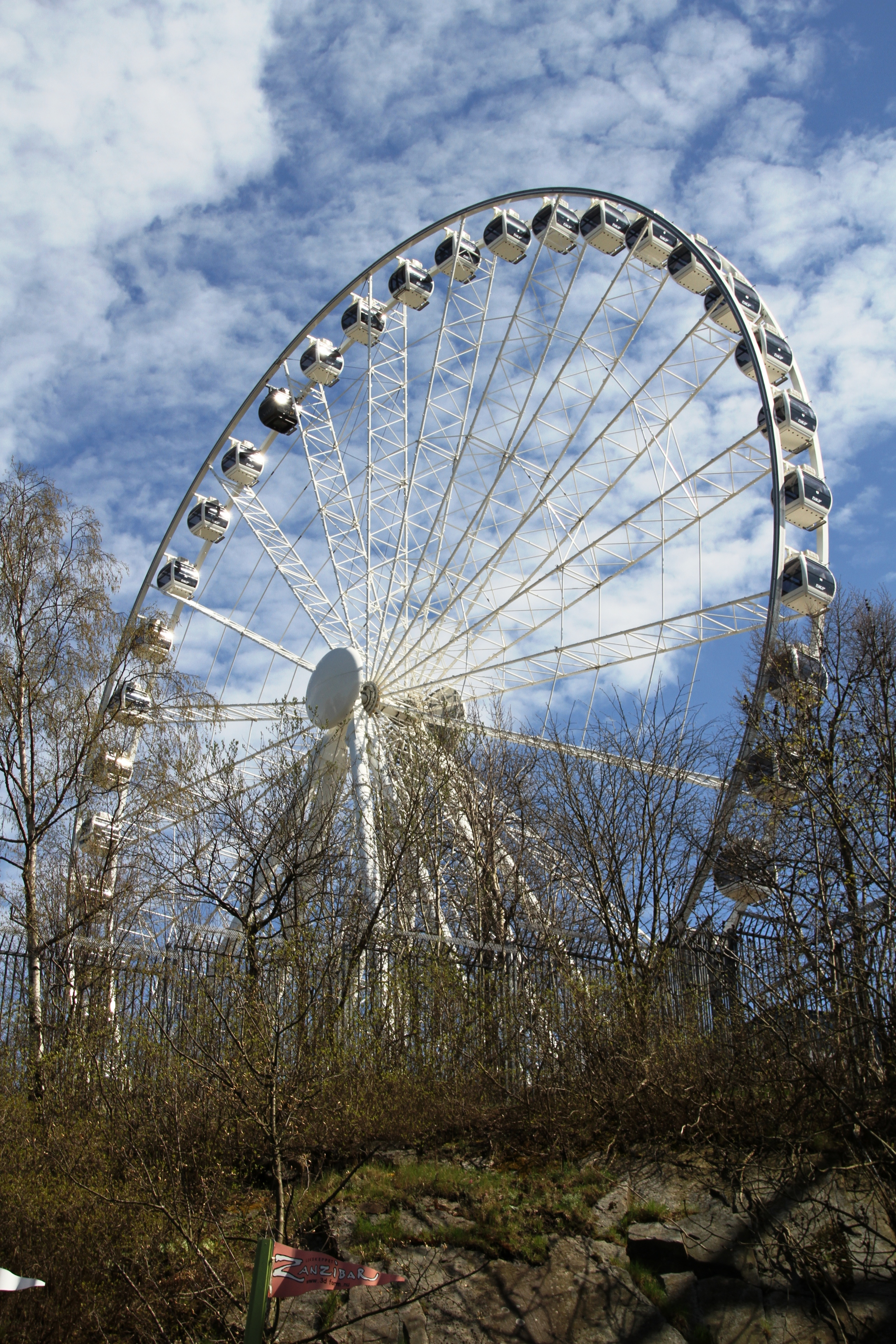 Liseberg amusement park, Gothenburg - Sweden